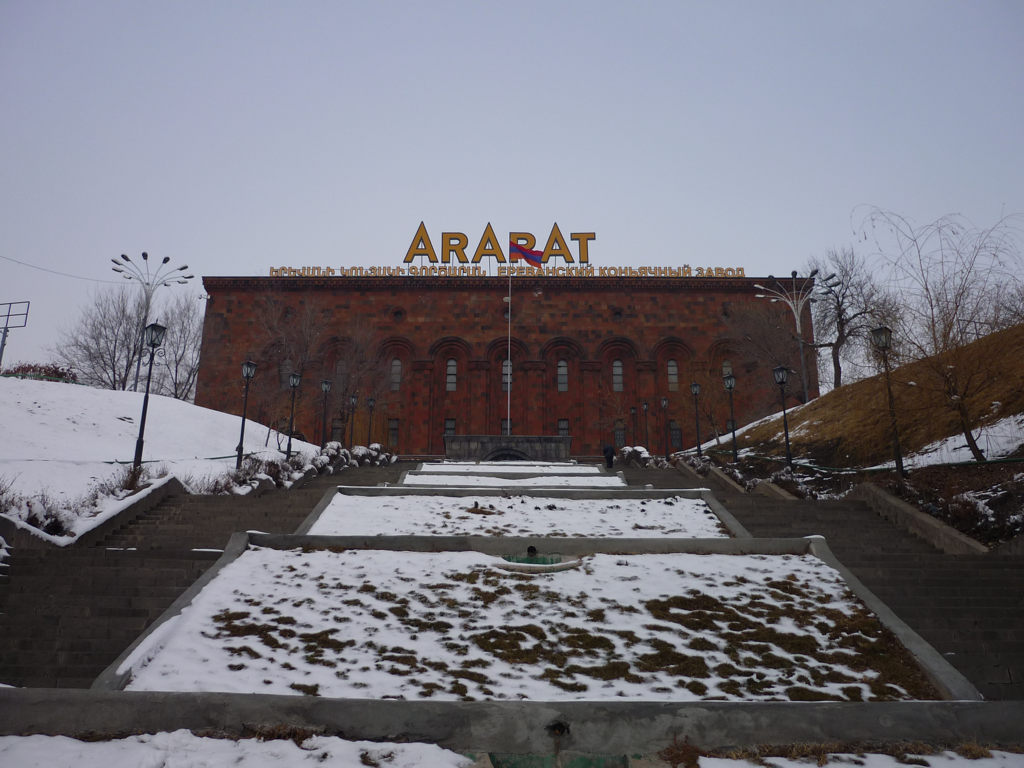 Ararat brandy factory in Yerevan, Winter time